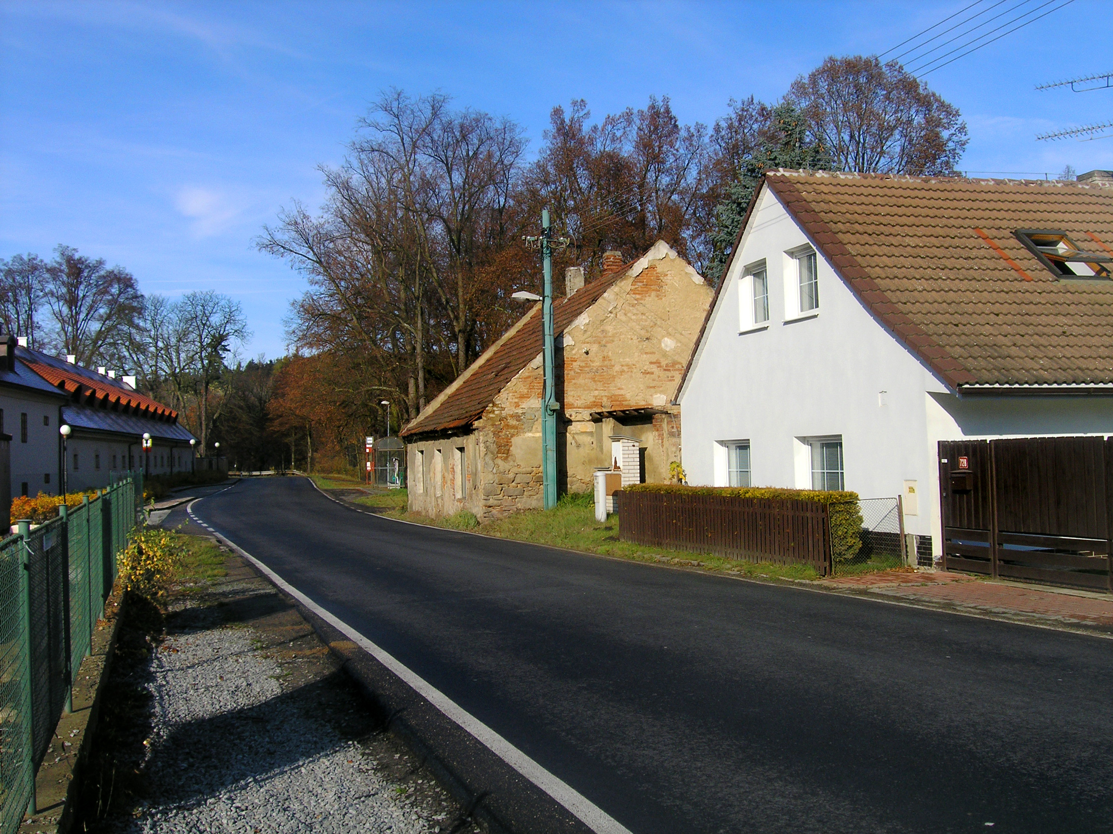 Ringhofferova street in Štiřín, part of Kamenice village, Czech Republic